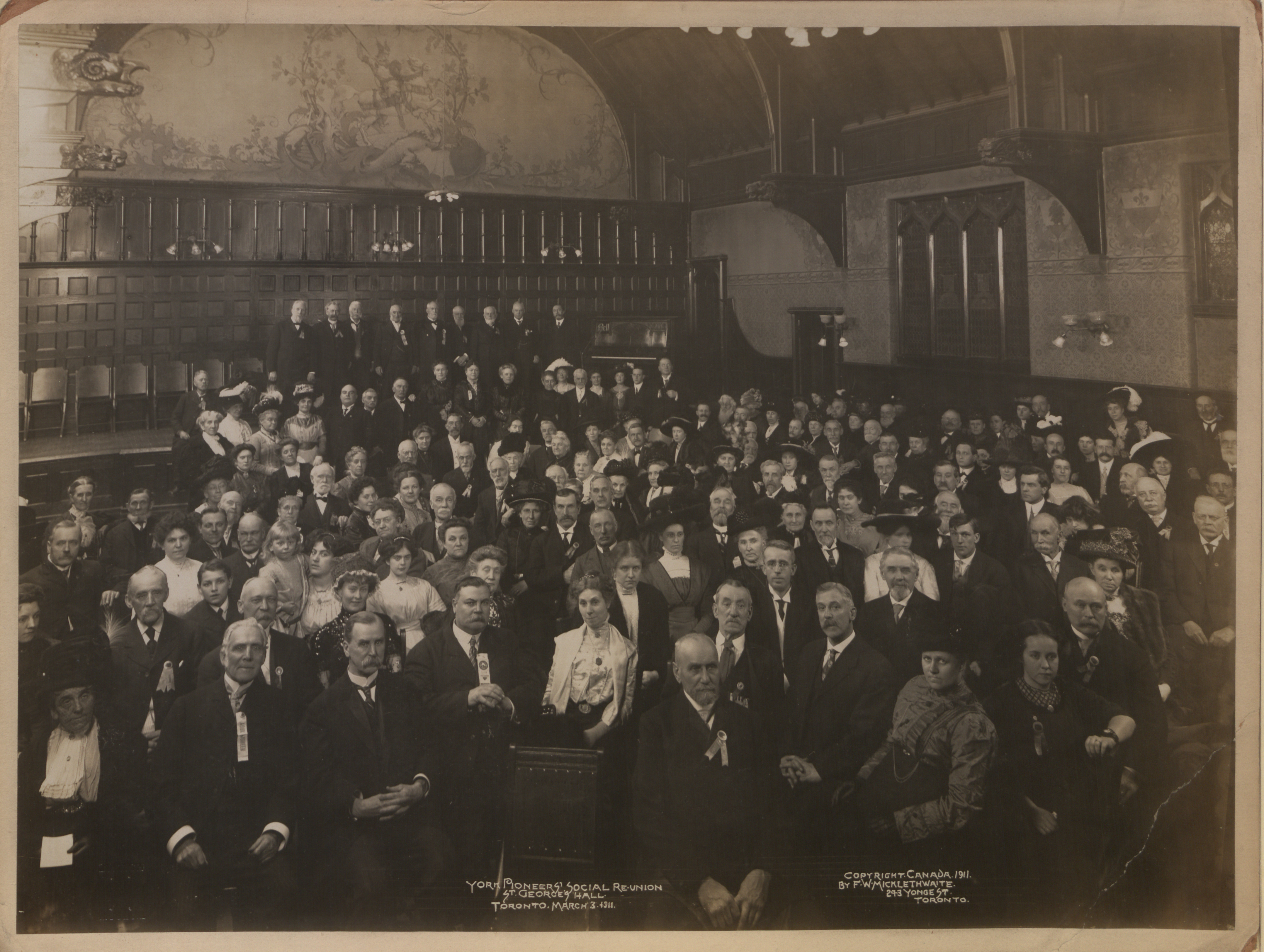 York Pioneers' social re-union St. George's Hall, Toronto, March 3, 1911.